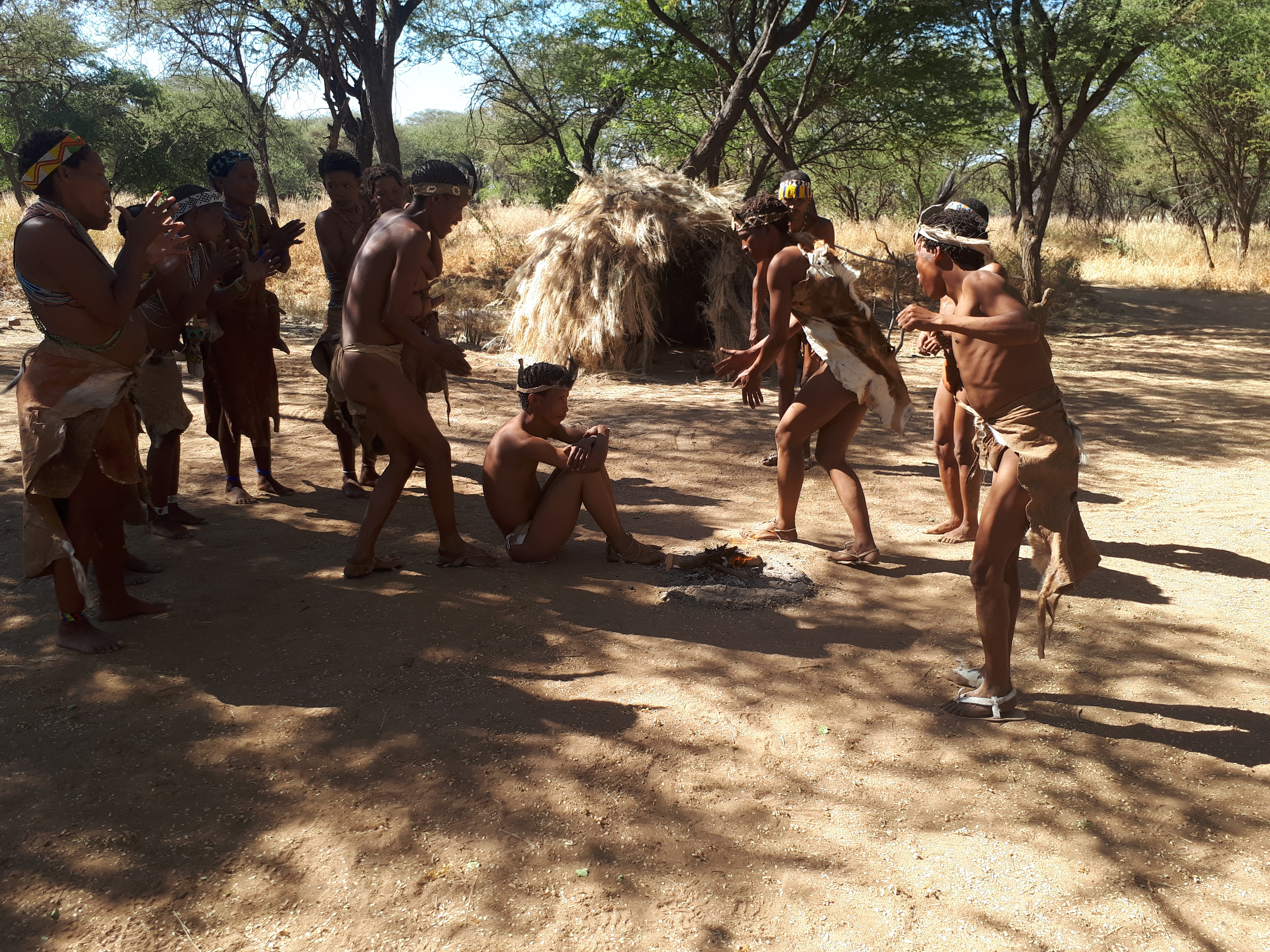 This is an image with the theme "Play" from: Namibia